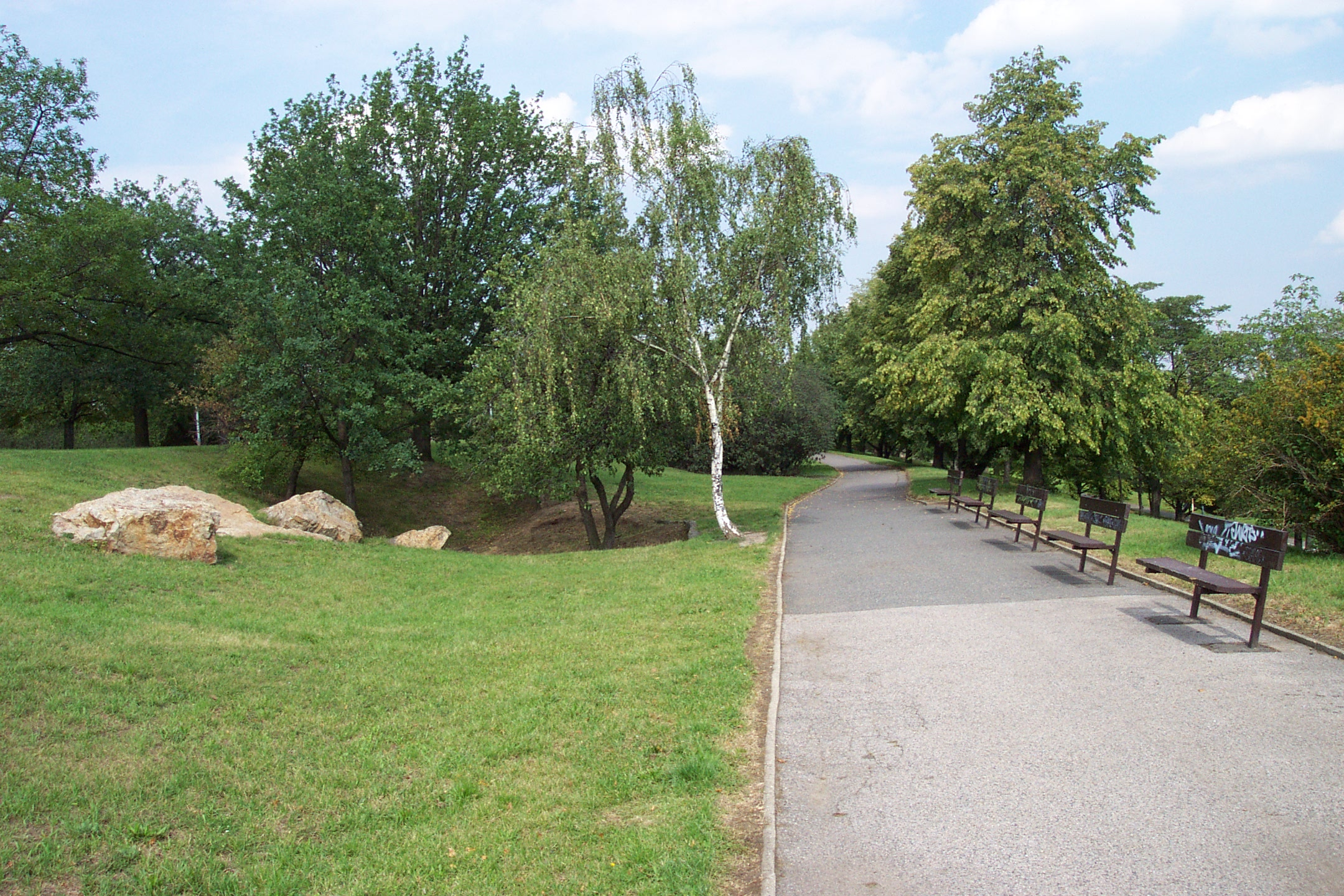 The Židovské pece park in Prague Žižkov